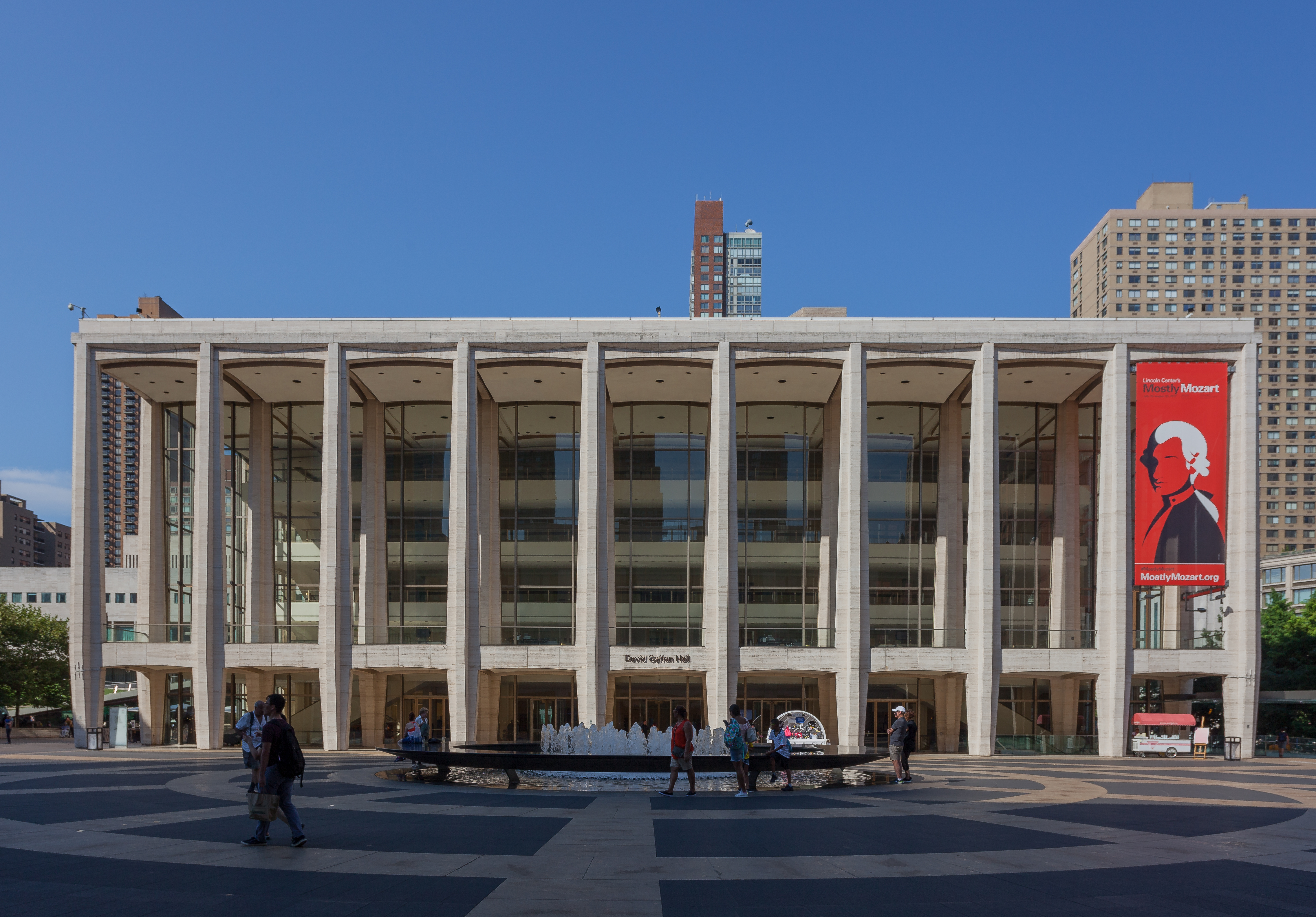 David Geffen Hall